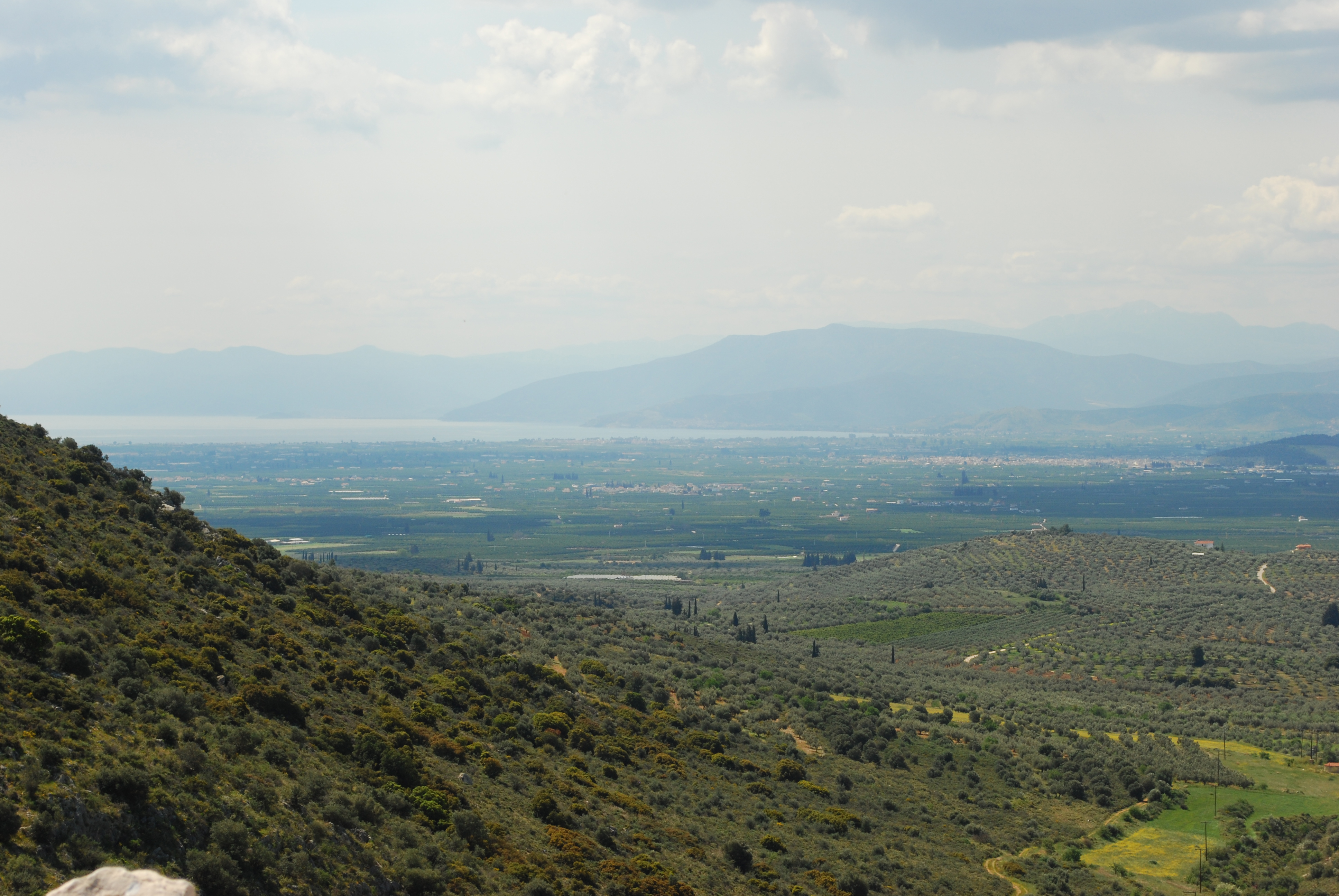 Landscape around Mycenae.